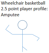 Created using information from . ISOD amputee class: A1 IWBF class: 2.5 point player